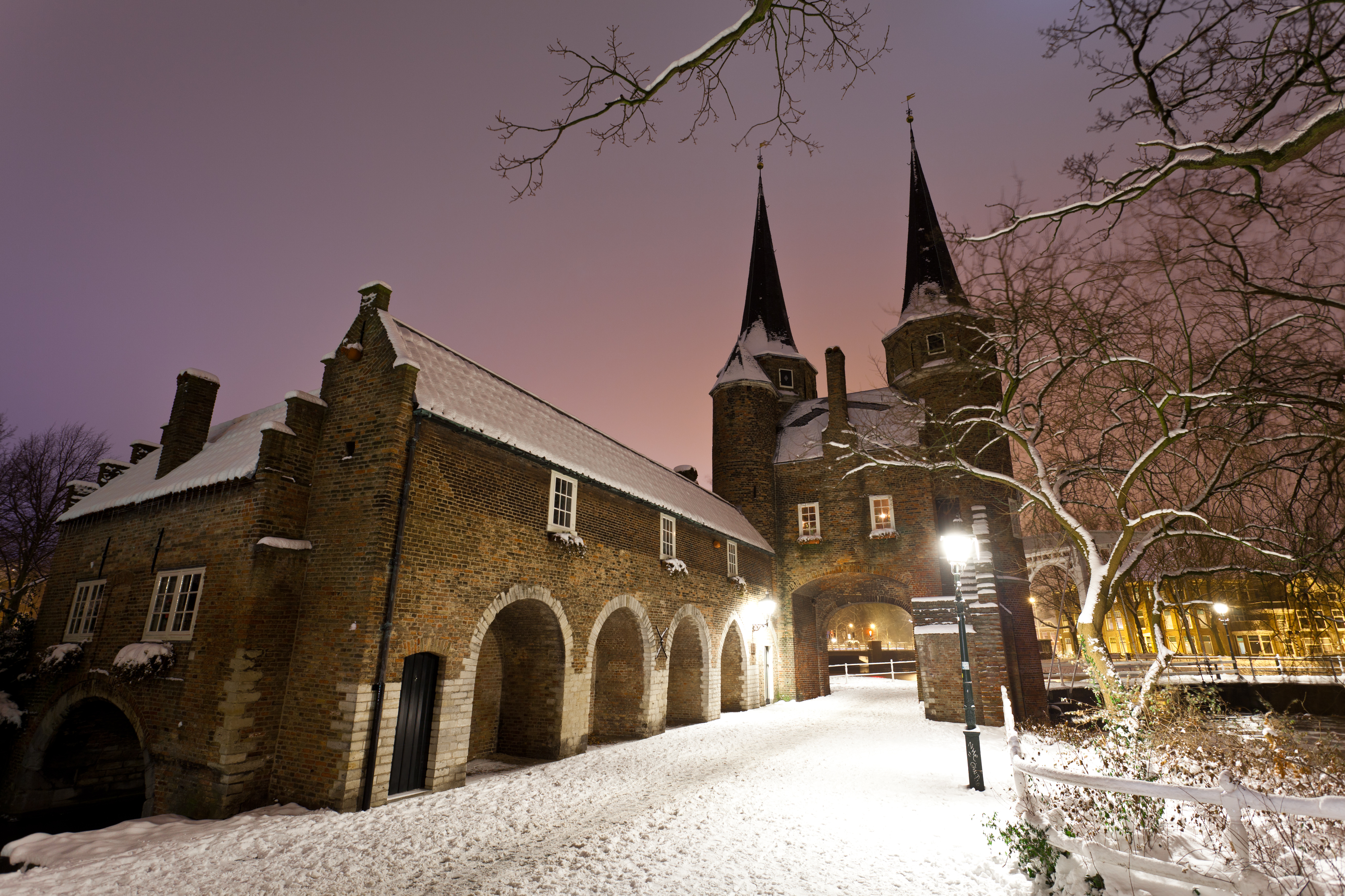 This is the eastgate in Delft, the Netherlands. It was build around the year 1400 and it's the only gate of the city that still stands.